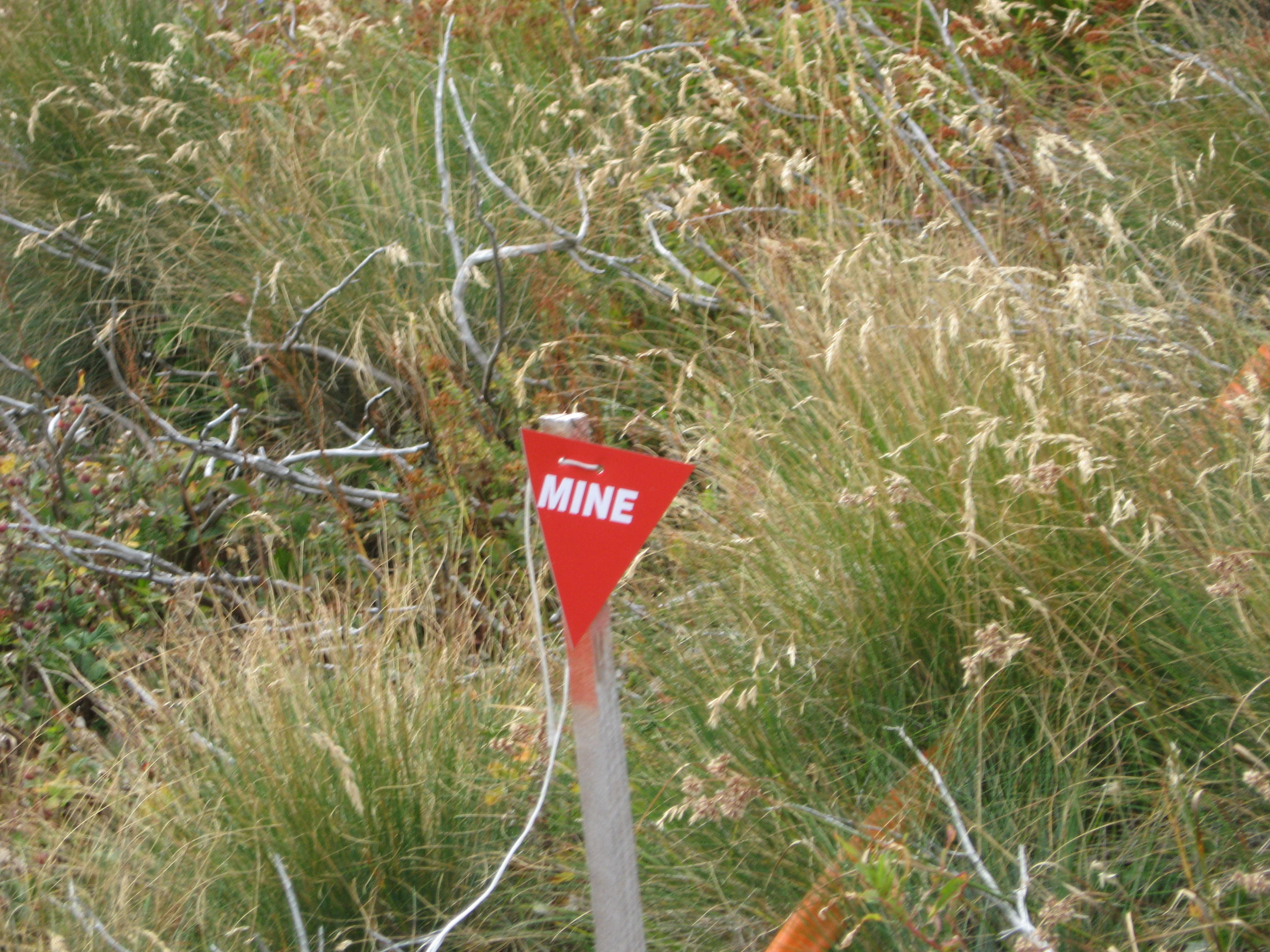 MINES!,warning sign about NATO cluster bombs,near ski slopes.